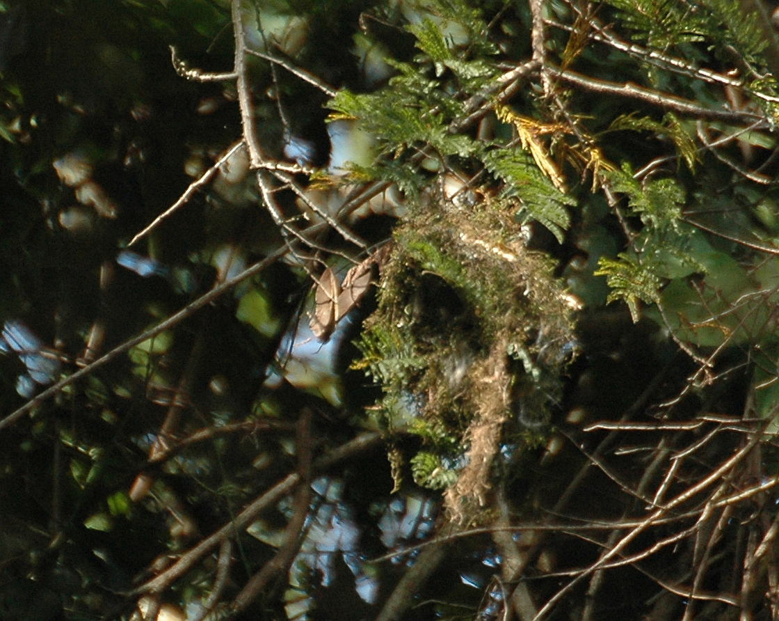 Nest of Tit-hylia (Pholidornis rushiae) Mabira Forest, Uganda